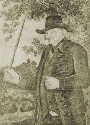 John Metcalf (civil engineer). Uploaded from Drawn by J R Smith in the Life of John Metcalf published 1801.